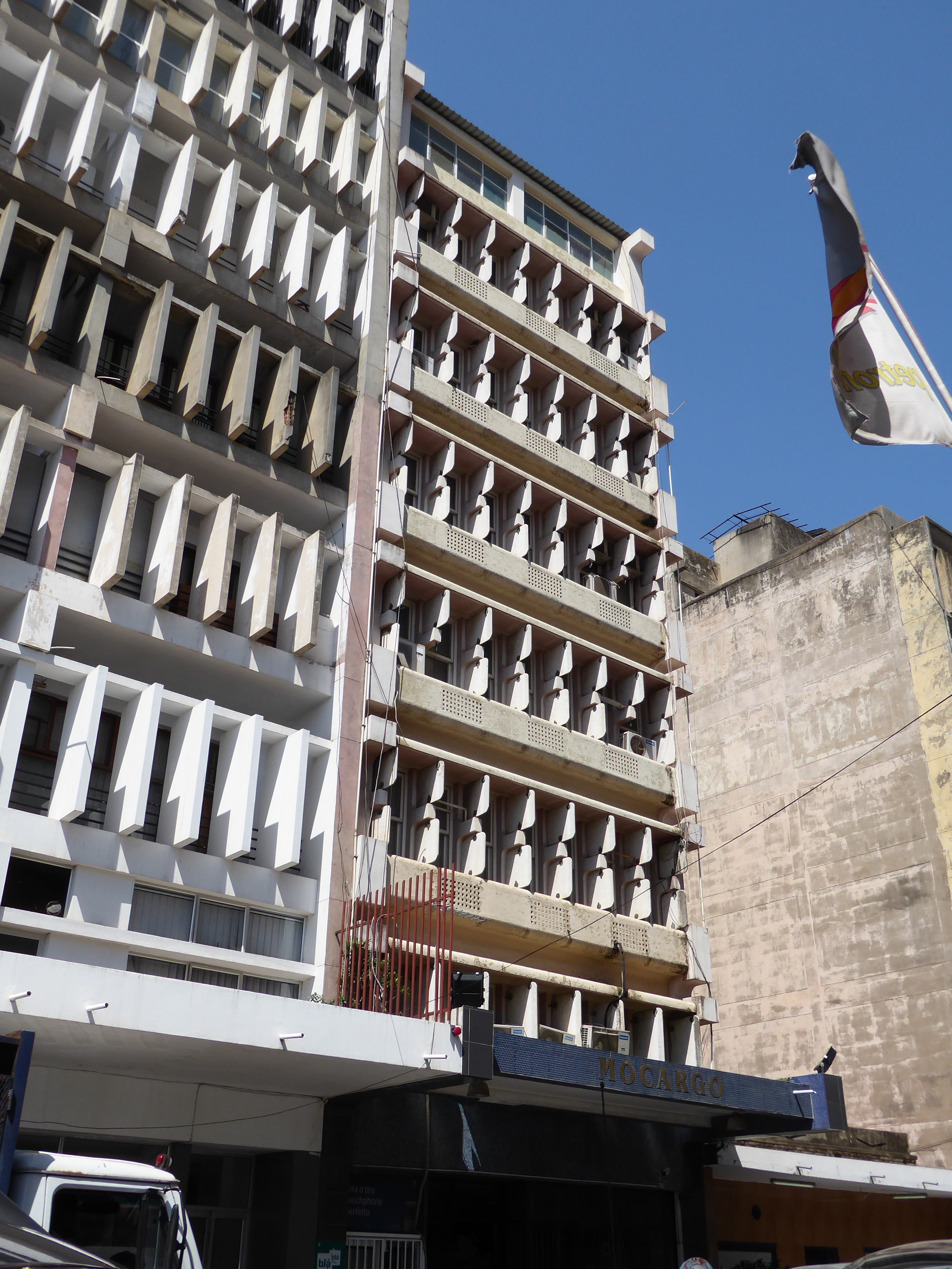 Octavio Lobo building, Maputo, Mozambique